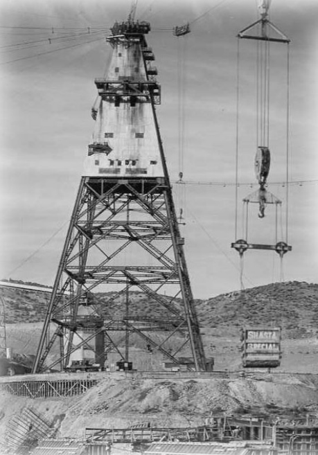 Main concrete placement cable tower used in construction of Shasta Dam (note "Shasta Special" on bucket)